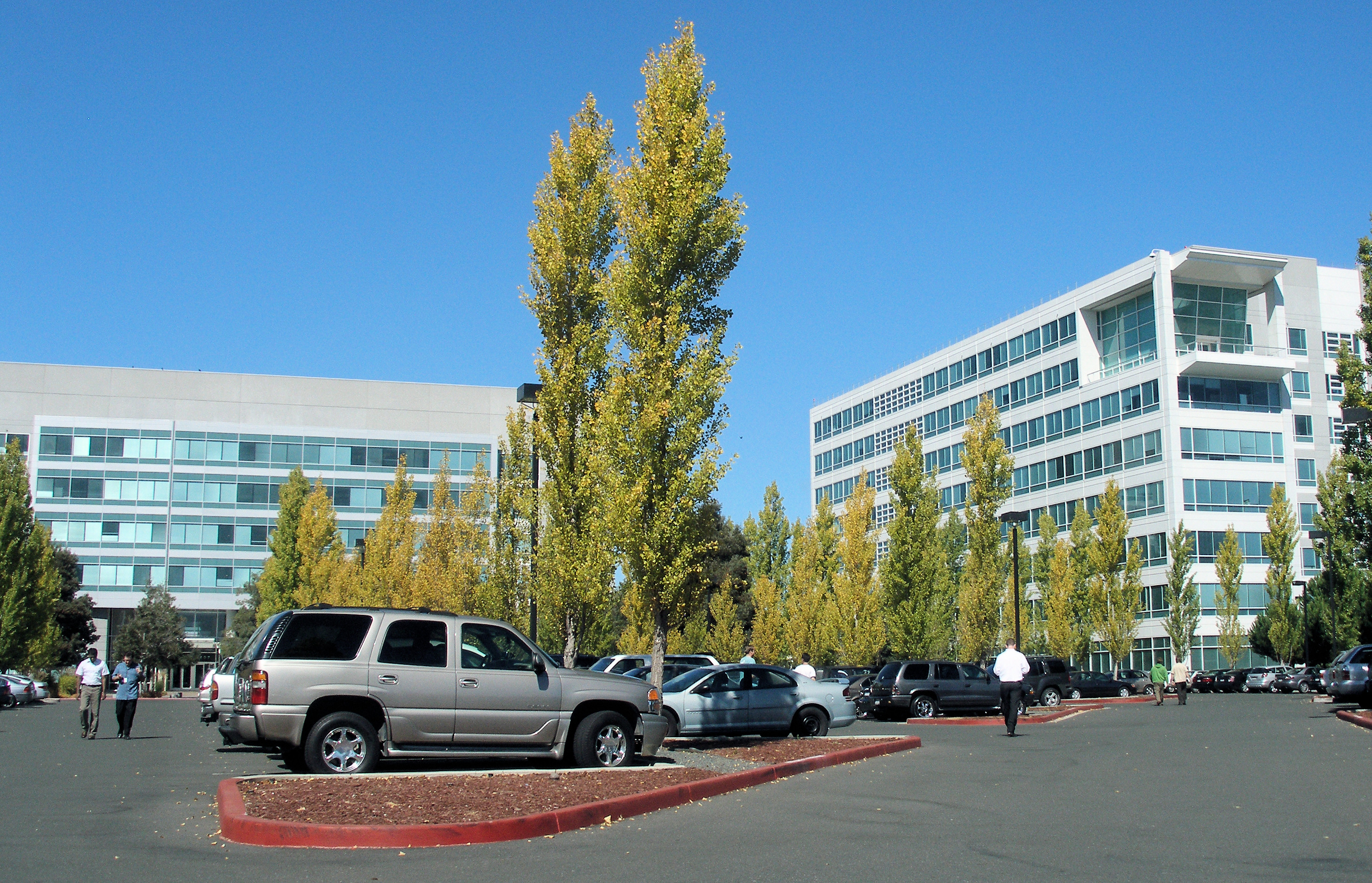 The headquarters of Electronic Arts in Redwood City on a bright sunny afternoon.